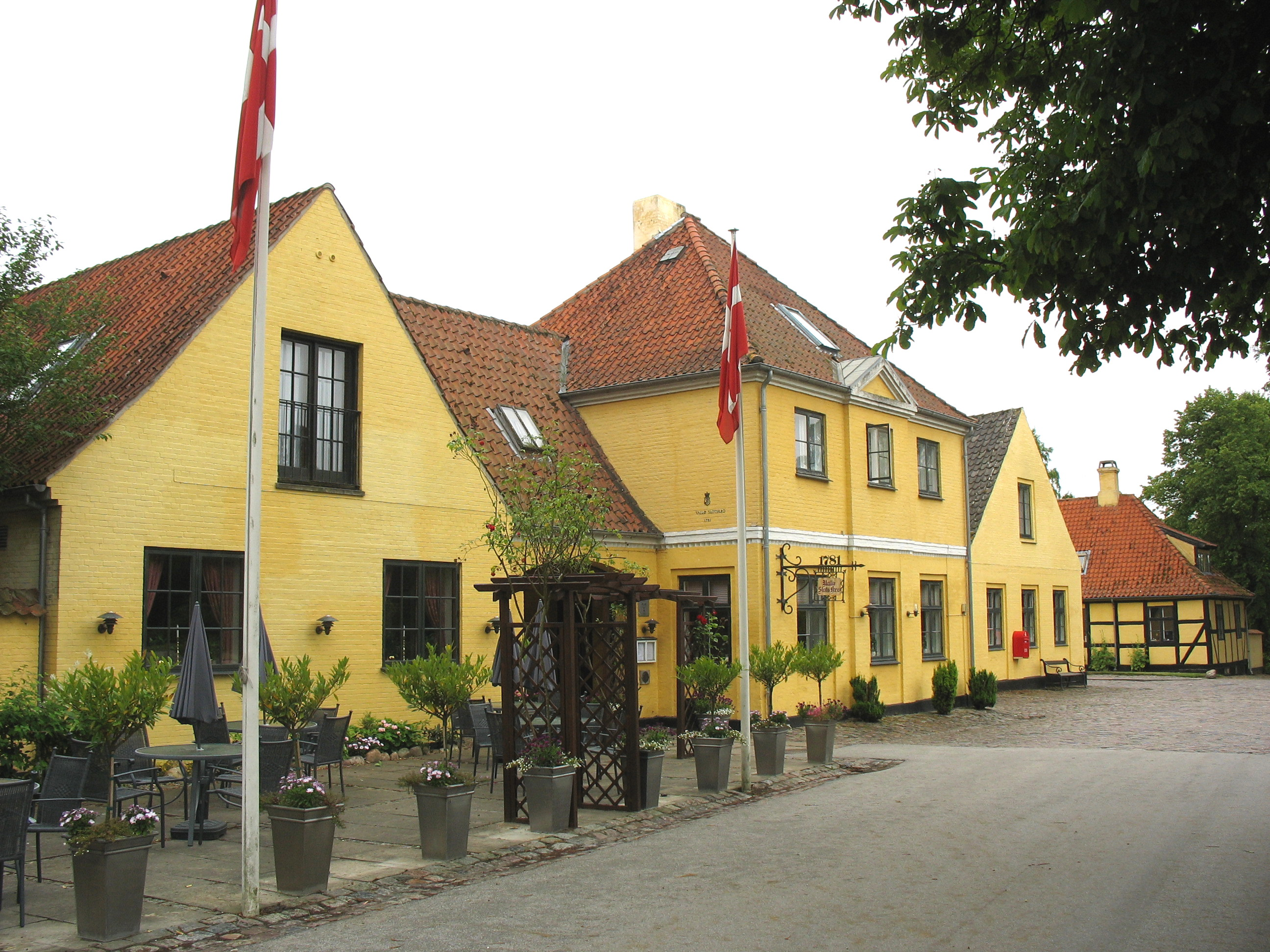 The castle tavern "Vallø Slotskro" near "Vallø Castle" located in South Zealand, east Denmark.